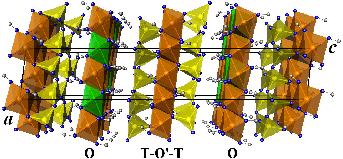 Crystal structure of cookeite LiAl4(Si3Al)O10(OH)8, space group Cc, projected along the b direction with perspective viewing. Yellow: silicon, orange: aluminum, green: lithium, blue: oxygen, gray: hydrogen. All the octahedra in the layers containing lithium have in fact a mixed occupancy of lithium and aluminum, the green octahedron being the only one with above 50% lithium. The octahedra layer sandwiched by SiO4 tetrahedra contain only aluminum. Data source: Zheng, H. and Bailey, S.W. (1997) Refinement of the cookeite "r" structure, American Mineralogist 82(9-10): 1007-1013.